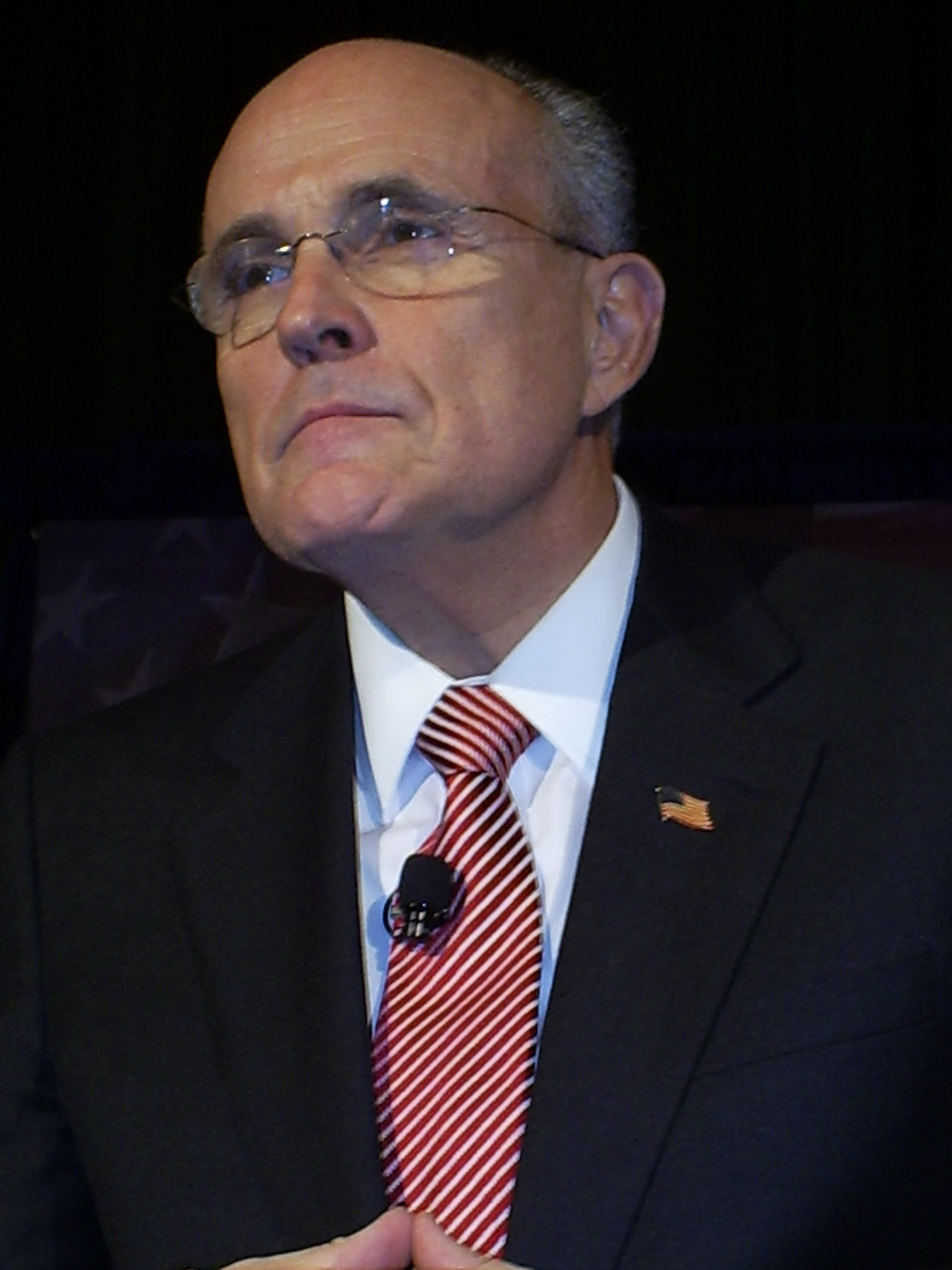 Rudy Giuliani at a 2008 Campaign event in Derry